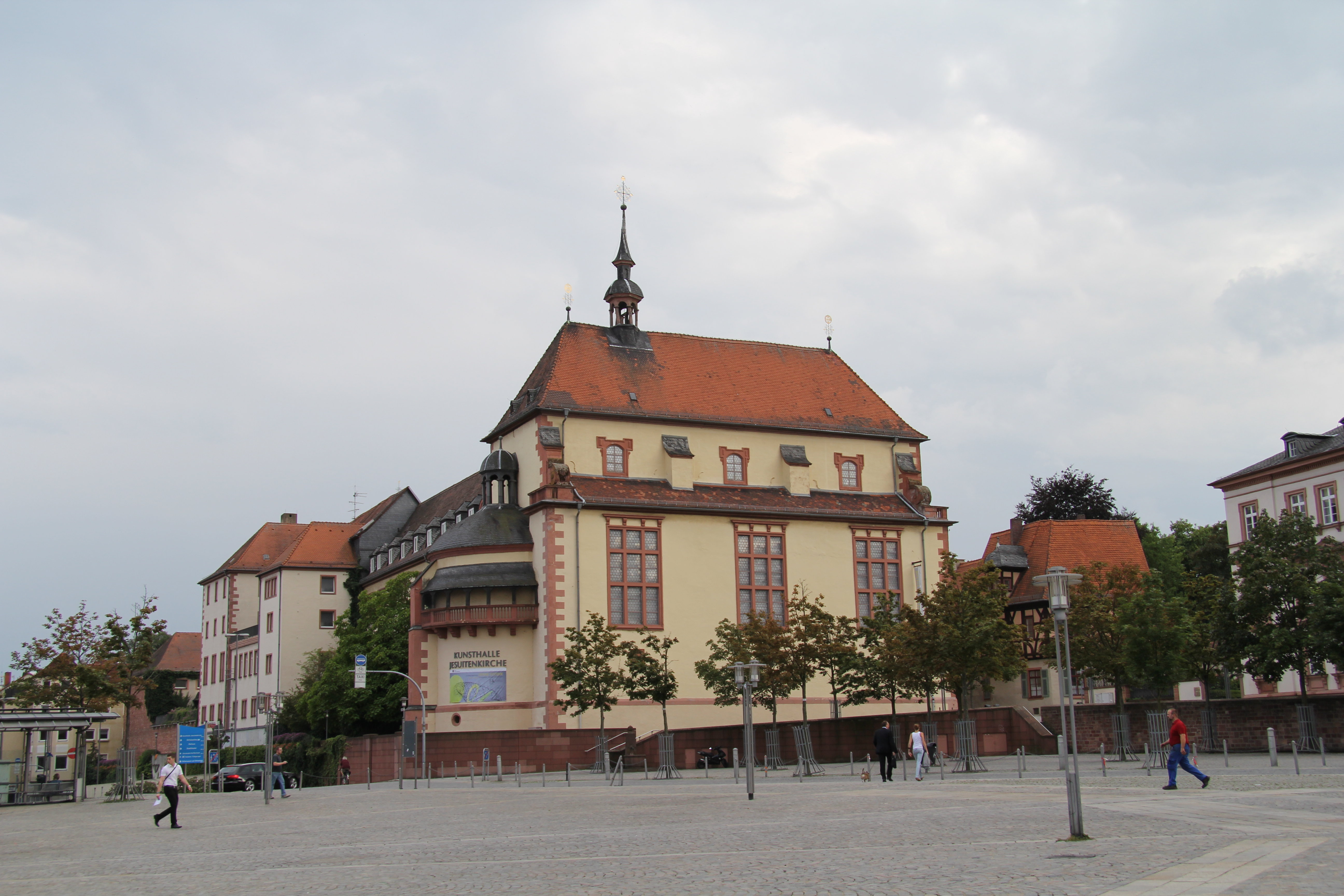 Aschaffenburg, Jesuits' church, today used as a municipal art gallery